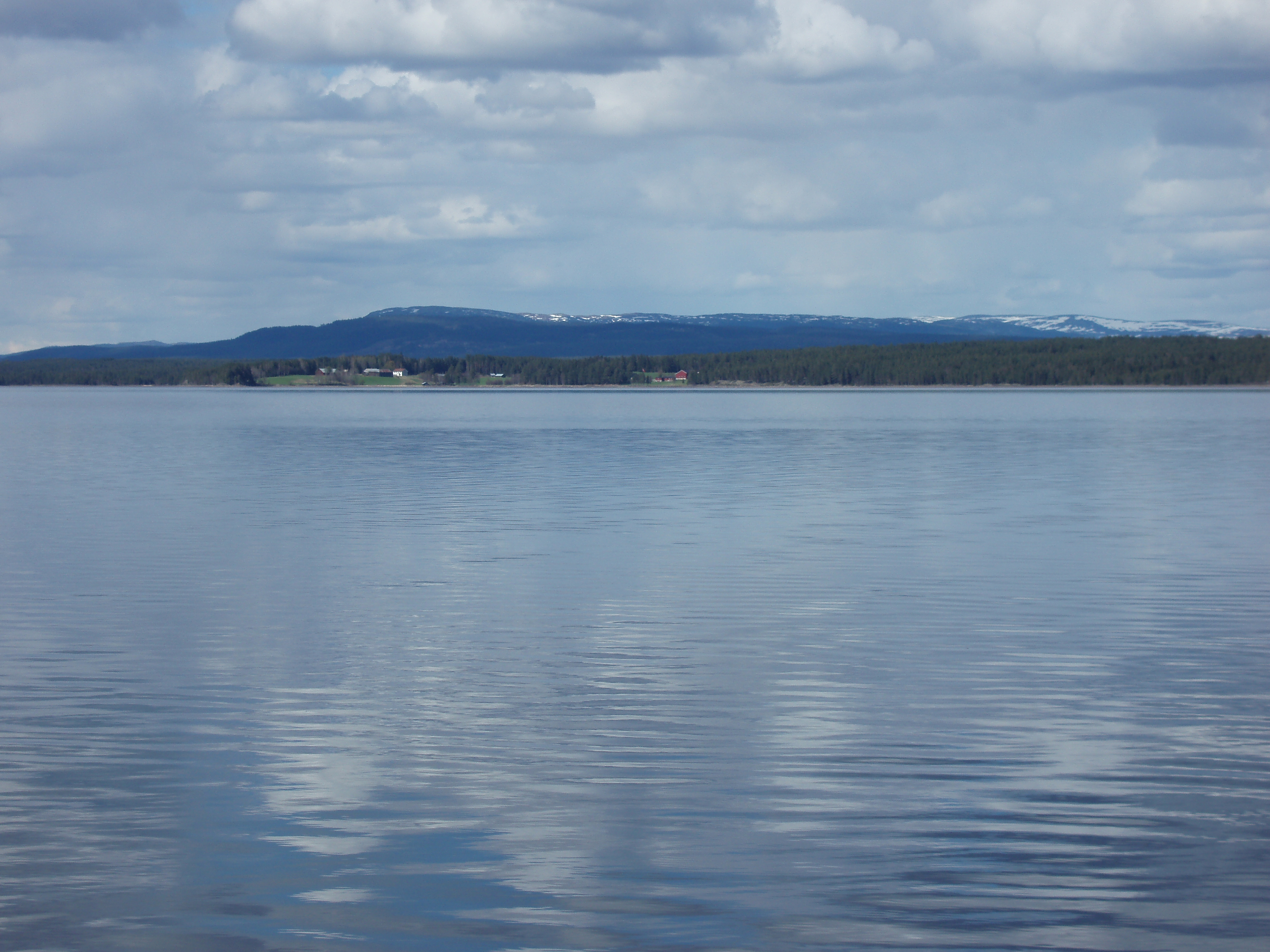 The lake Osensjøen in Trysil and Åmot municipalities in Hedmark county in Norway.